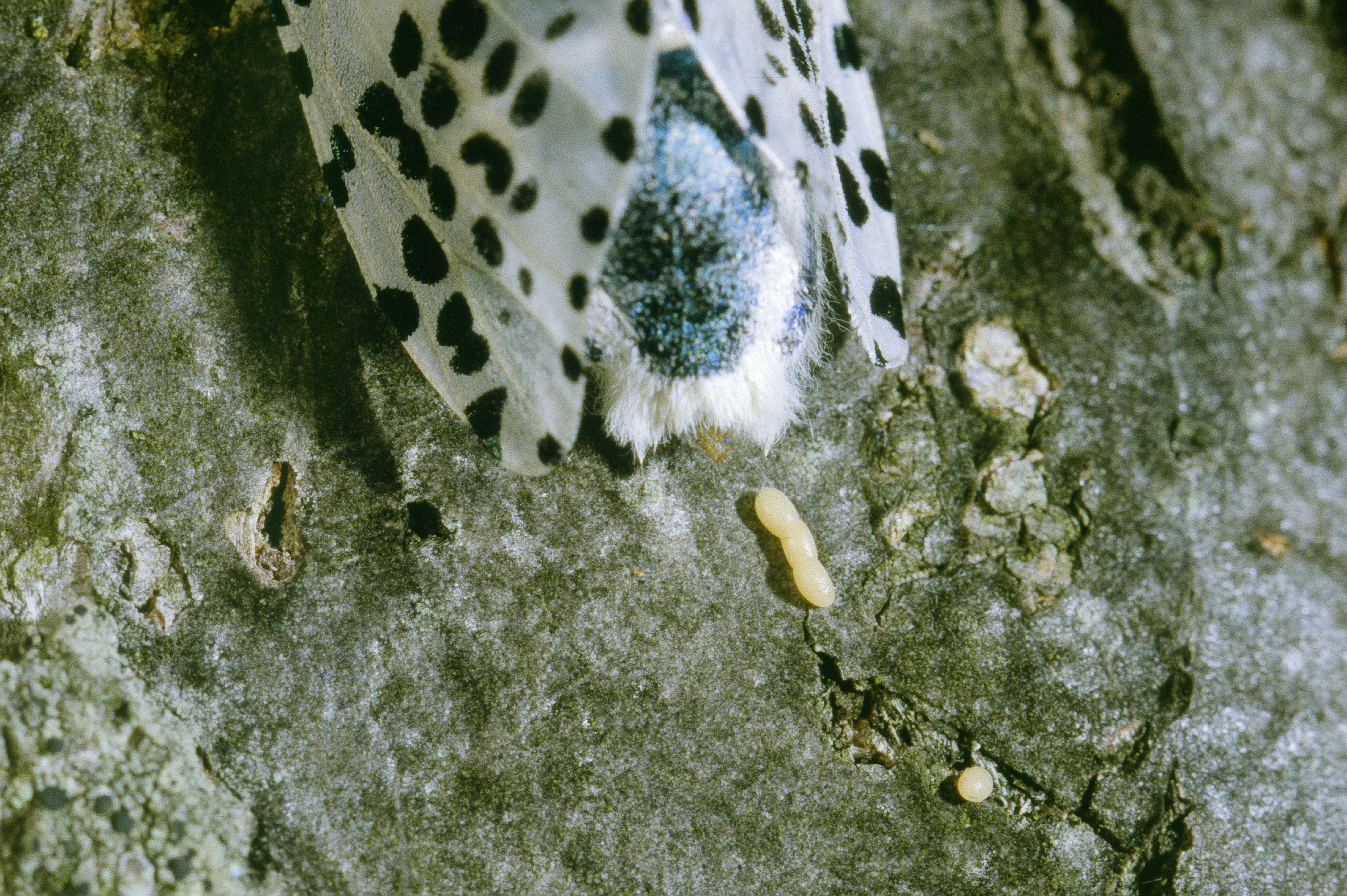 Egg-laying from Zeuzera pyrina sometime after birth.